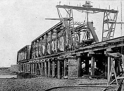 Construction works of the Neuquén-Cipolletti railway bridge. It was built by the BA Great Southern Railway.